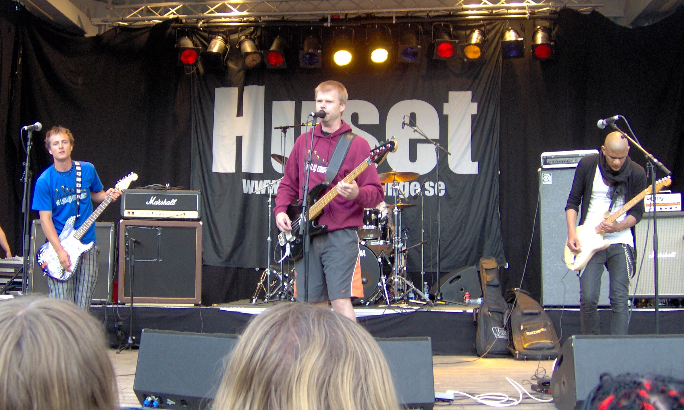 Swedish punk rock band De Lyckliga Kompisarna, live at Huset i Parken, Huddinge.